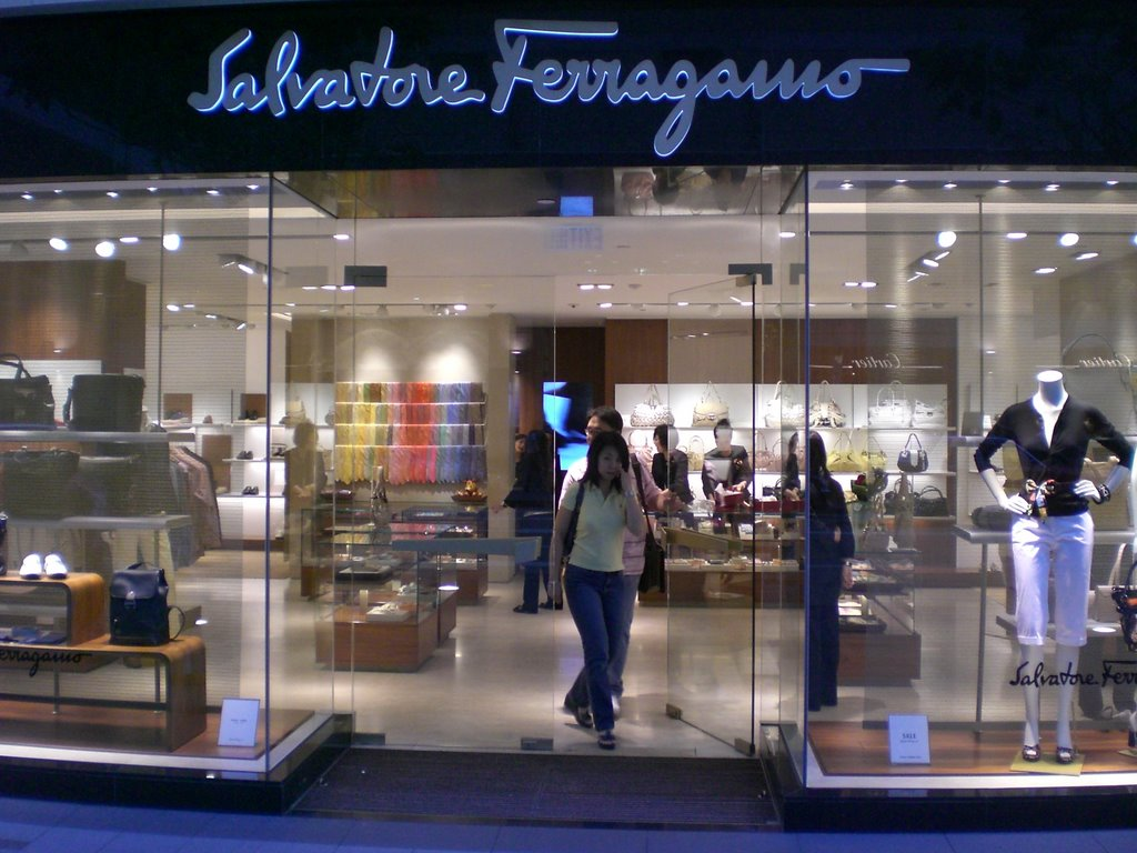 Central, Hong Kong Author= SHOLYWOD